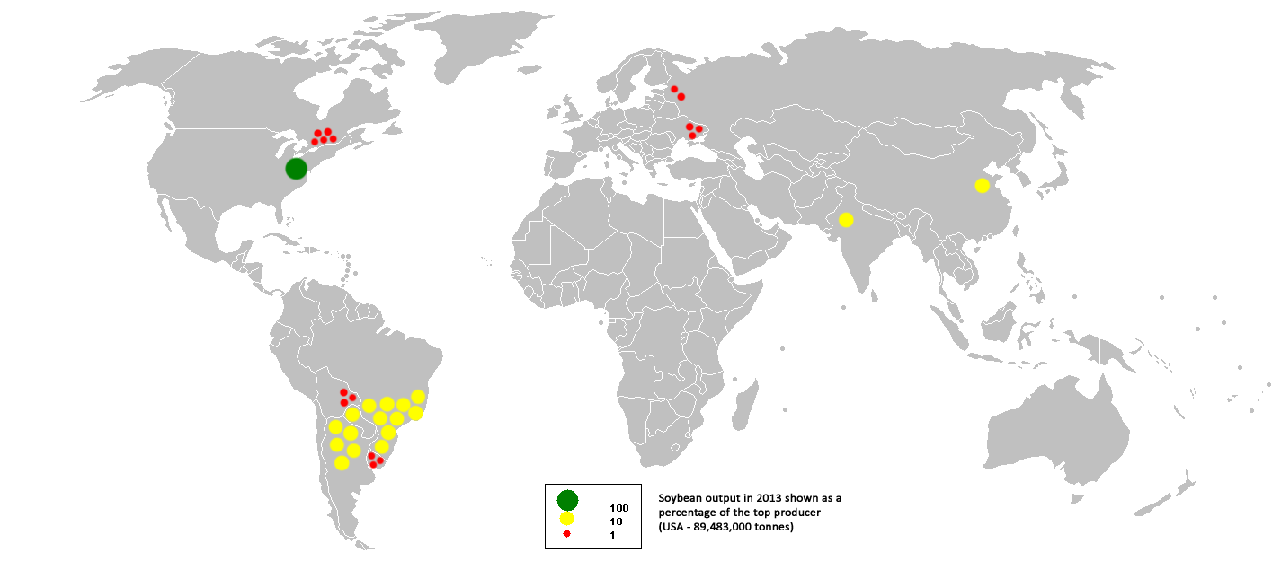 This bubble map shows the global distribution of soyabean output in 2013 as a percentage of the top producer (USA - 89,483,000 tonnes). This map is consistent with incomplete set of data too as long as the top producer is known. It resolves the accessibility issues faced by colour-coded maps that may not be properly rendered in old computer screens. Data was extracted on 18th March 2015 from Based on File:BlankMap-World-v2.png